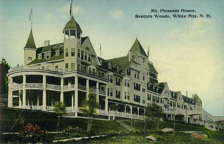 The Mount Pleasant House, Bretton Woods, White Mountains, New Hampshire. Originally built in 1875 and opened the following year, the hotel was enlarged in the Queen Anne Style by Portland architect Francis H. Fassett in 1895.